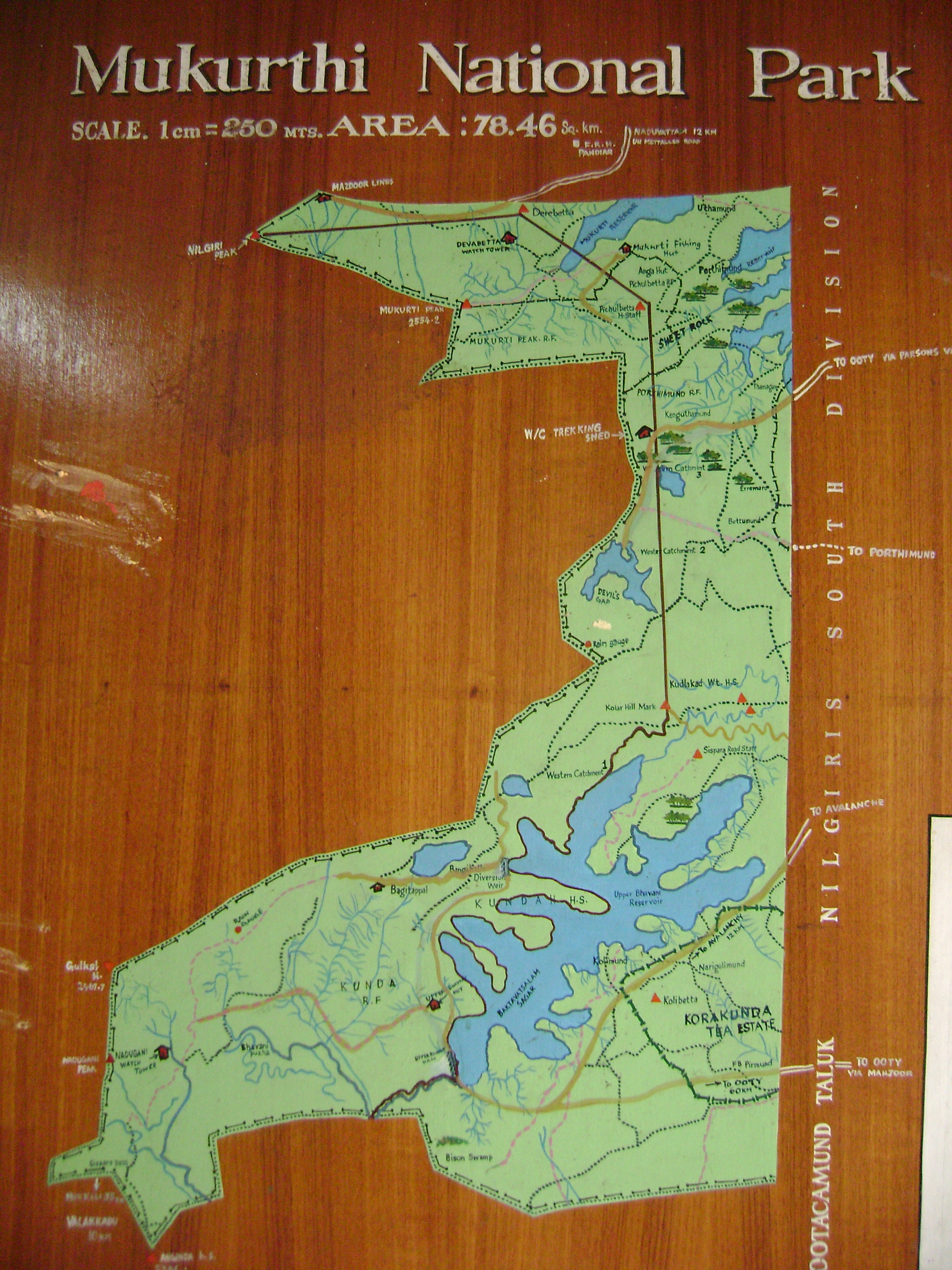 Mukurthi National Park Map. Ootacumund, District Forest Office